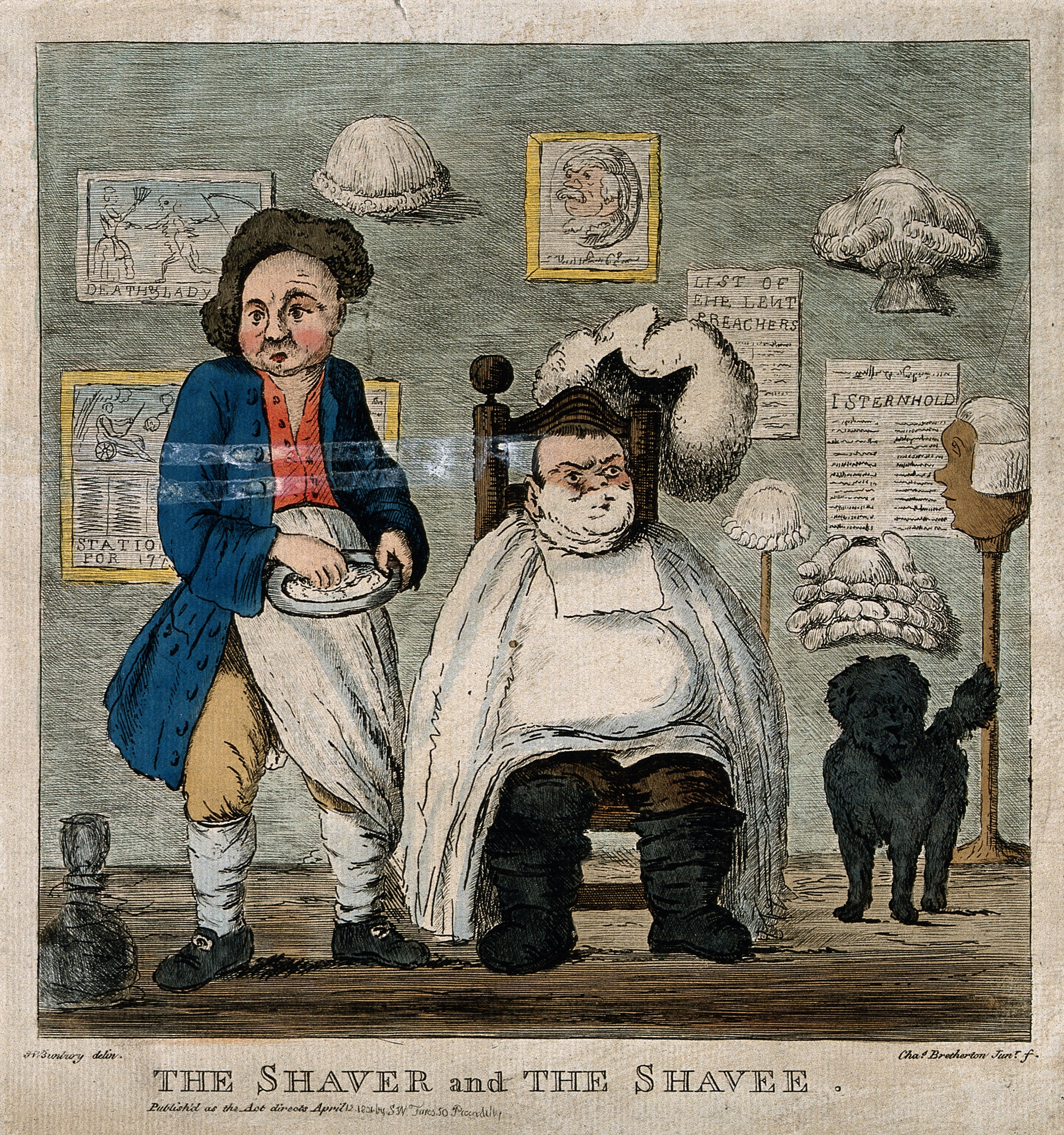 A barber getting ready to shave the face of a seated customer. Coloured etching by C. Bretherton, 1801, after H.W. Bunbury. Iconographic Collections Keywords: Henry William Bunbury; Charles Bretherton